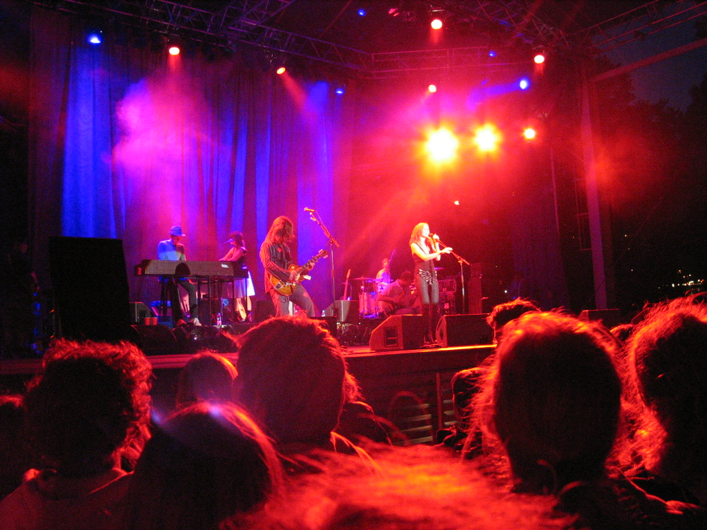 The Cardigans on concert (Tivoli Gardens, Copenhagen , 2004)